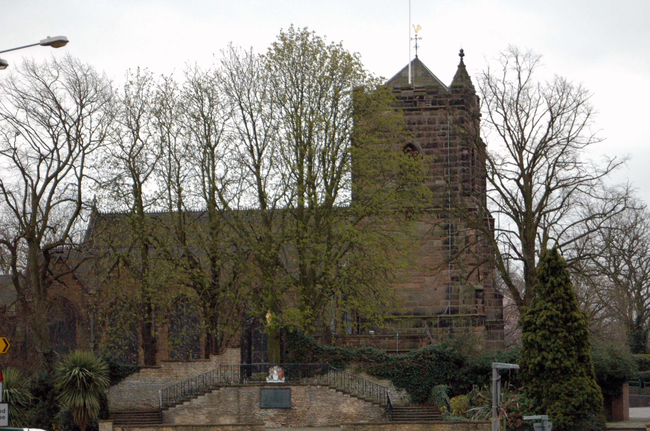 Created by Erebus555. This is Holy Trinity Church on Trinity Hill in Sutton Coldfield, Birmingham, West Midlands, England taken in April 2007.